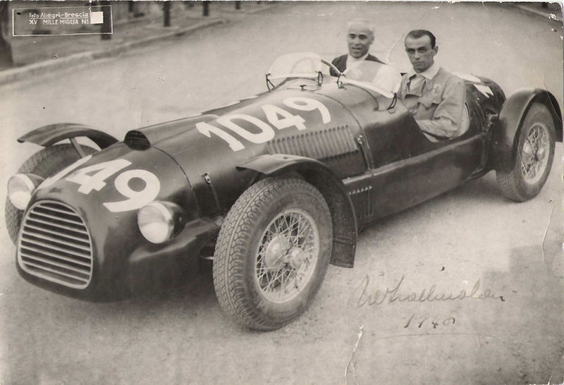 Entry #1049 at Mille Miglia on 2–3 May 1948 was the 1948 Ferrari 166 C s/n 006i. This is before the race, we see driver Tazio Nuvolari (left) and co-driver and mechanic Sergio Scapinelli, but they did not finish [1]